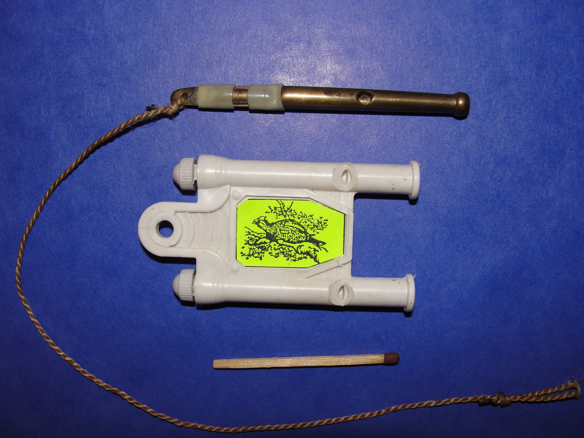 Two hazel grouse calls, hand-made and industrial-made (Moscow, Russia)